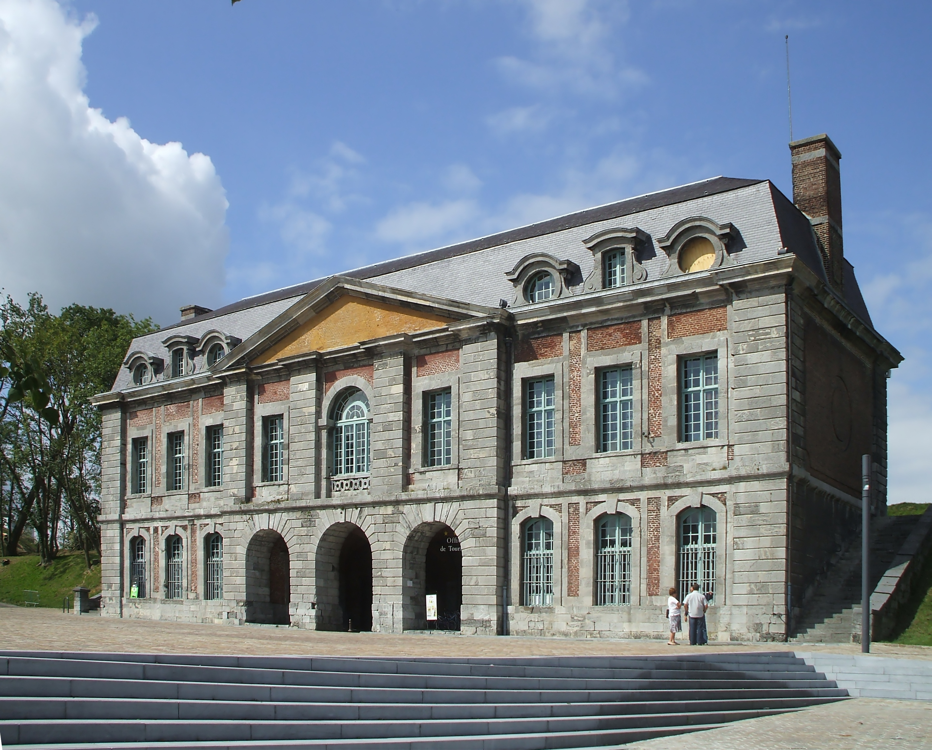 Mons's gate to Maubeuge in department Nord in France. Built under Louis XIV of France by Sébastien Le Prestre de Vauban in 1682 to shelter a guardroom, housing and cells. The door is the last one of three doors of the surrounding wall of the city. Indeed the Door of France was destroyed in 1958 the door of Bavay is destroyed in 1952. it is built brick-built, blue stone and stoneware and possesses a drawbridge. it is classified as "Historic Monument" since 1924. It is the Tourist Information Office.